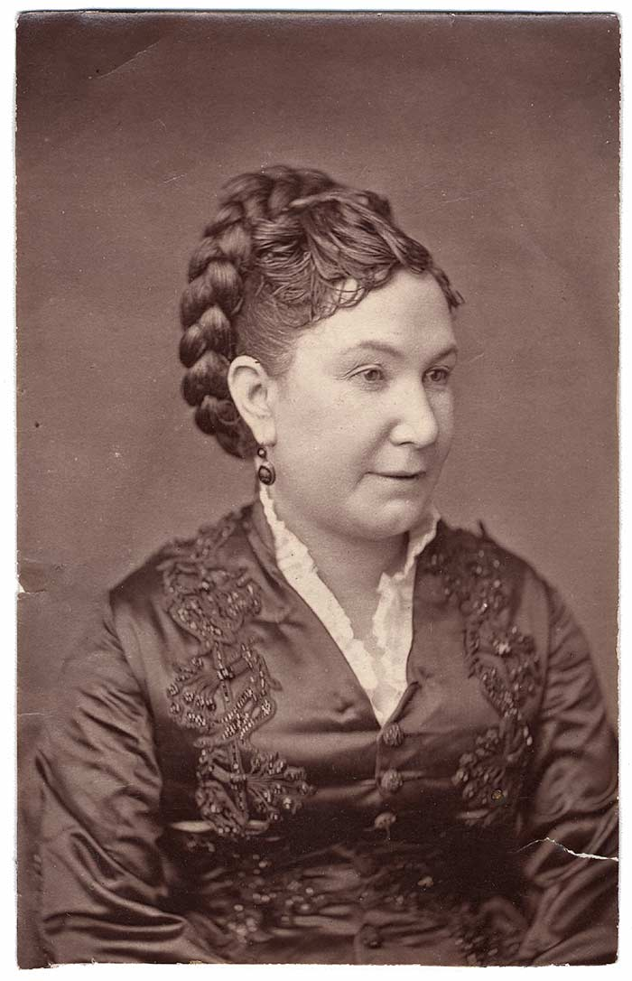 abt 1870 photographic image The information, artwork, text, video, audio, animation and picture files (collectively, 'Materials') contained within this PeoplePlayUK website are the intellectual property of the Theatre Museum (Victoria & Albert Museum) except where indicated otherwise, and are protected by copyright laws. PeoplePlayUK allows reproduction and reuse of items accessed through the website for non-commercial educational and research purposes (as required by the New Opportunities Fund), except where copyright ownership by a third party has been explicitly stated, in which case written permission from the rights holders will be required to use the items. Commercial use of any material on this website may only be made with the express, prior, written permission of the rights owner.